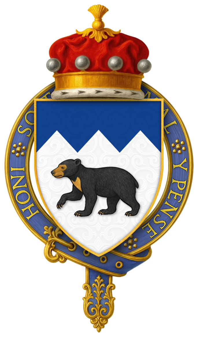 Coat of Arms of John Hunt, Baron Hunt, KG, CBE, DSO, PC